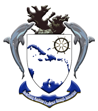 The CMI